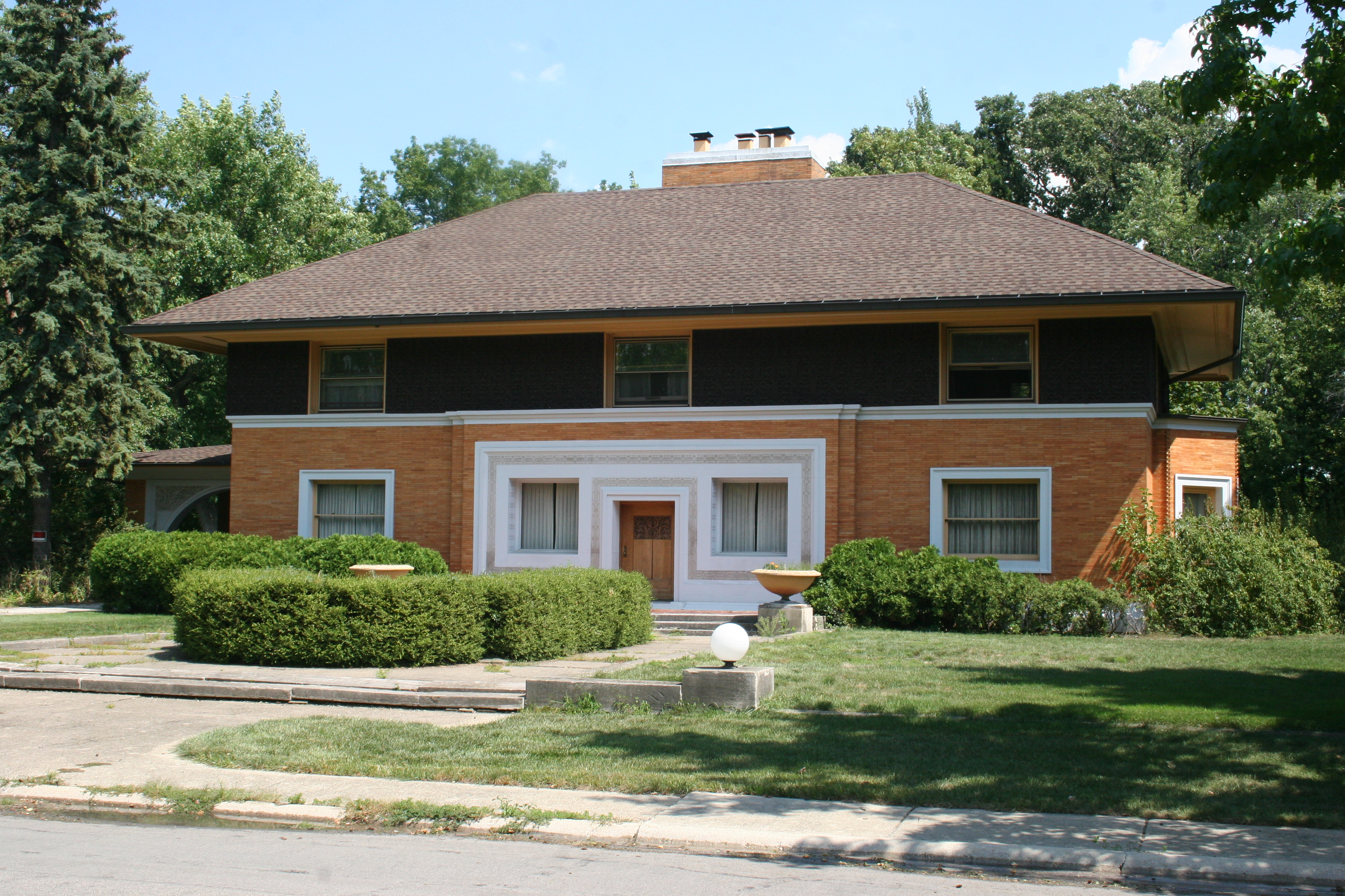 William H. Winslow House and Stable